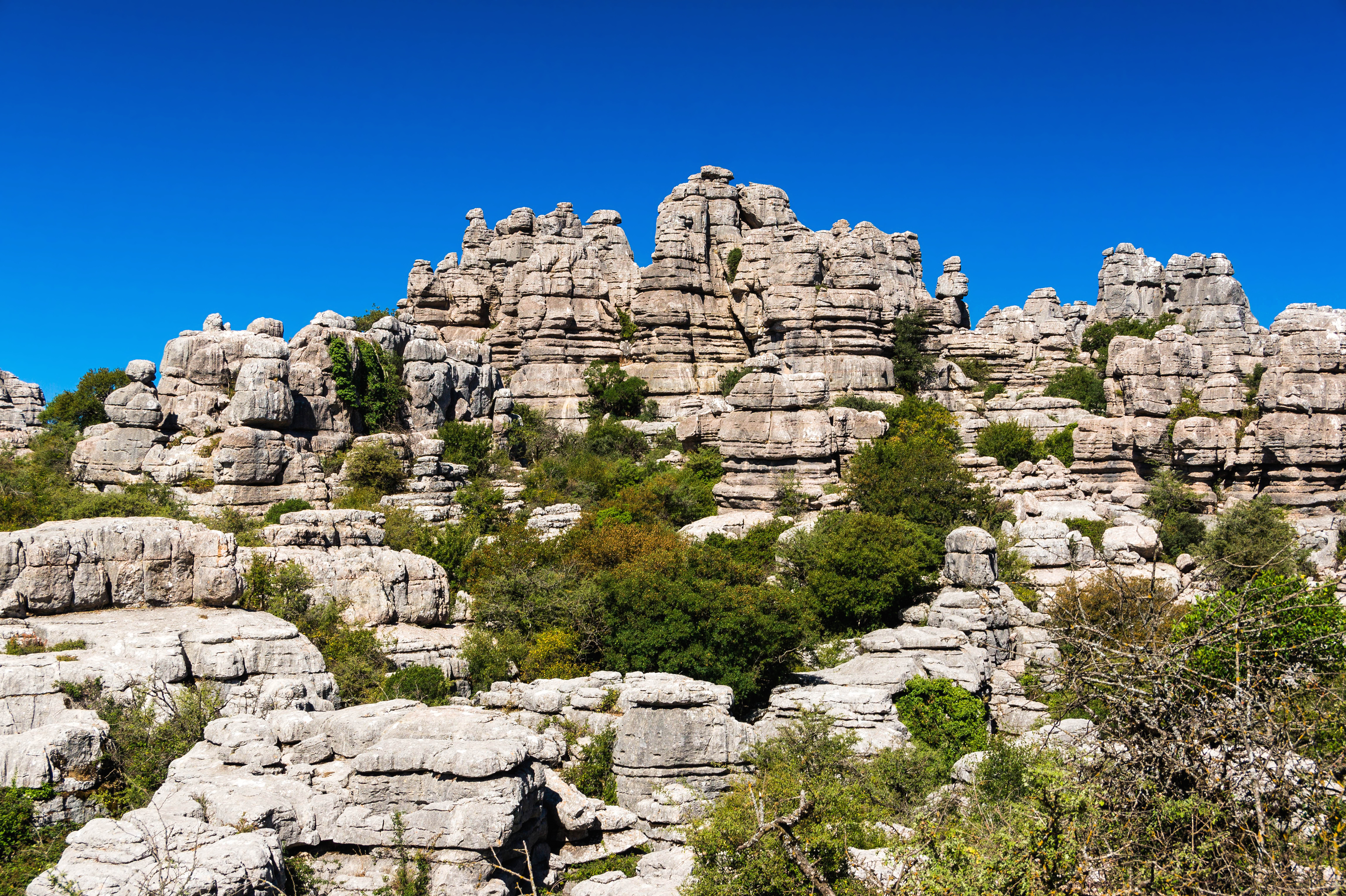 Karst in El Torcal de Antequera, Andalusia, Spain.